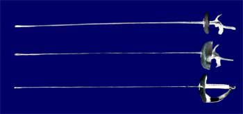 fencing weapons